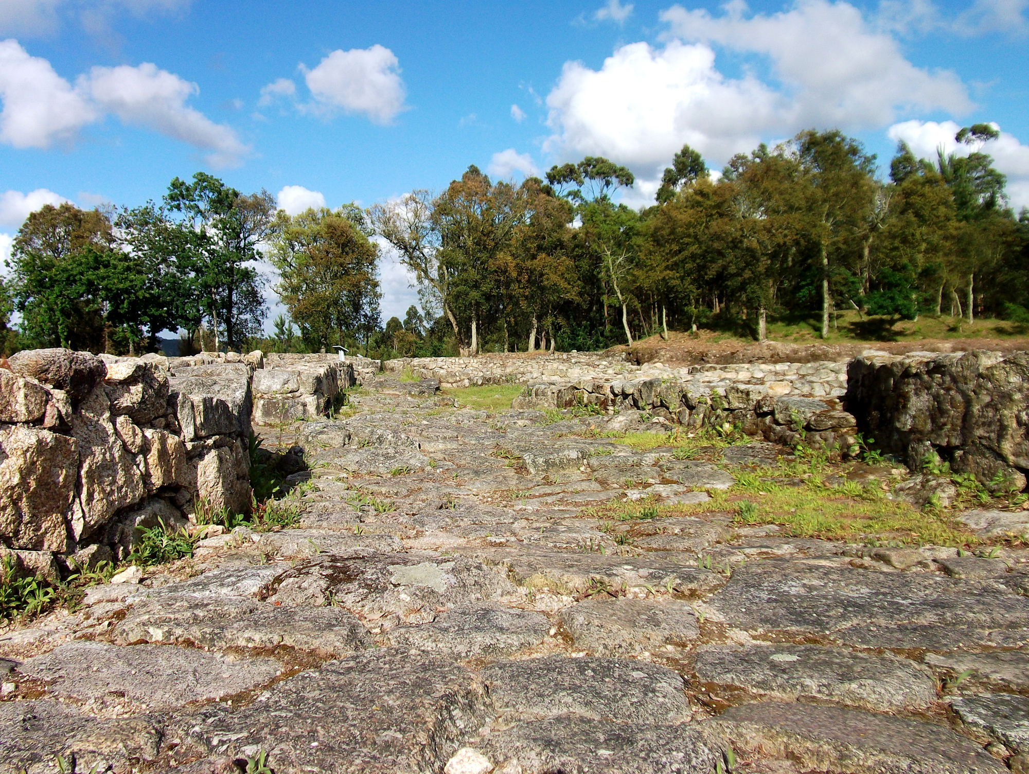 Central street, Cividade de Terroso